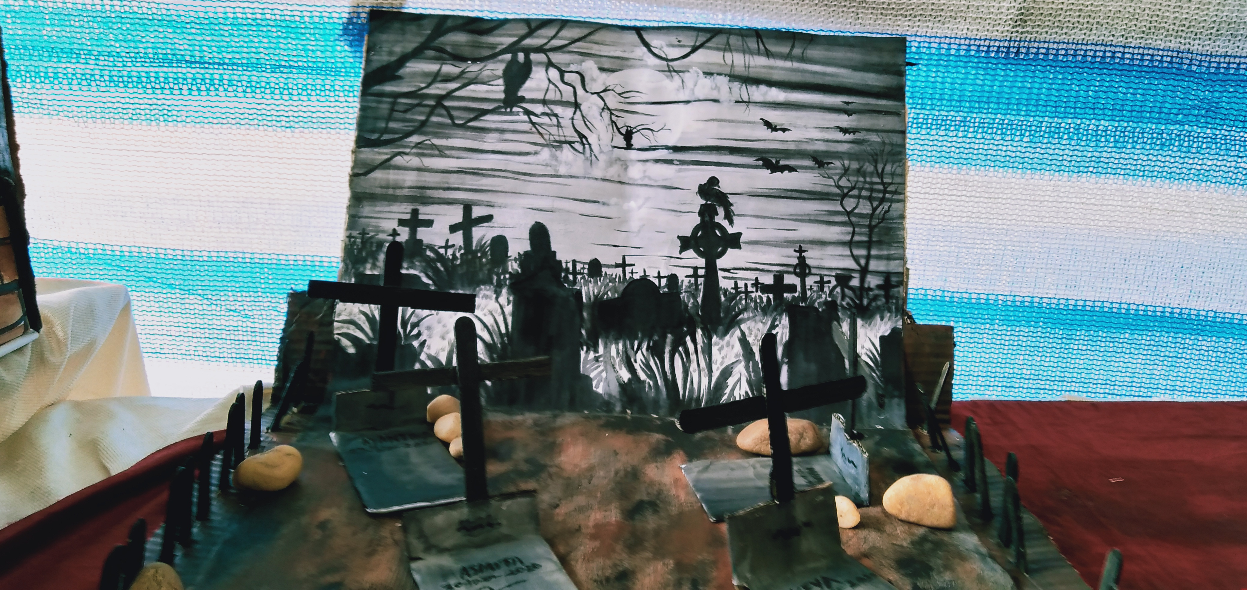 It's a model on Graveyard School of Poetry. The model is prepared by the students of 4th Semester, English Honours.